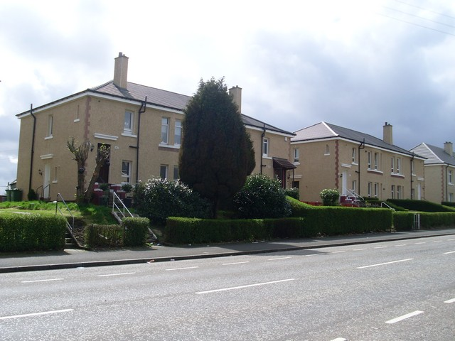 Carntyne Road housing